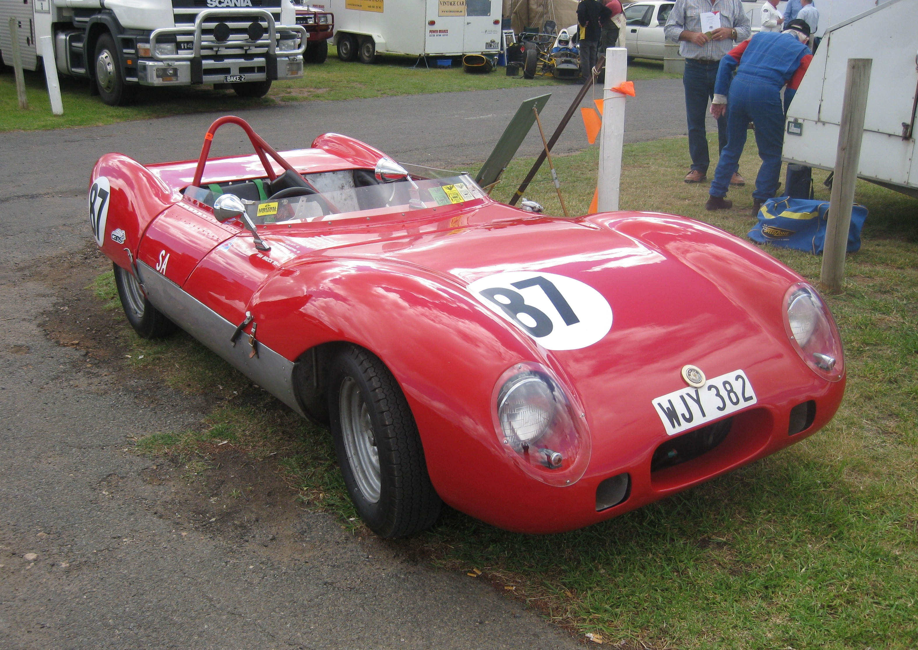 The Elfin Streamliner of Ian Brock at Mallala Motor Sport Park on 23 April 2011